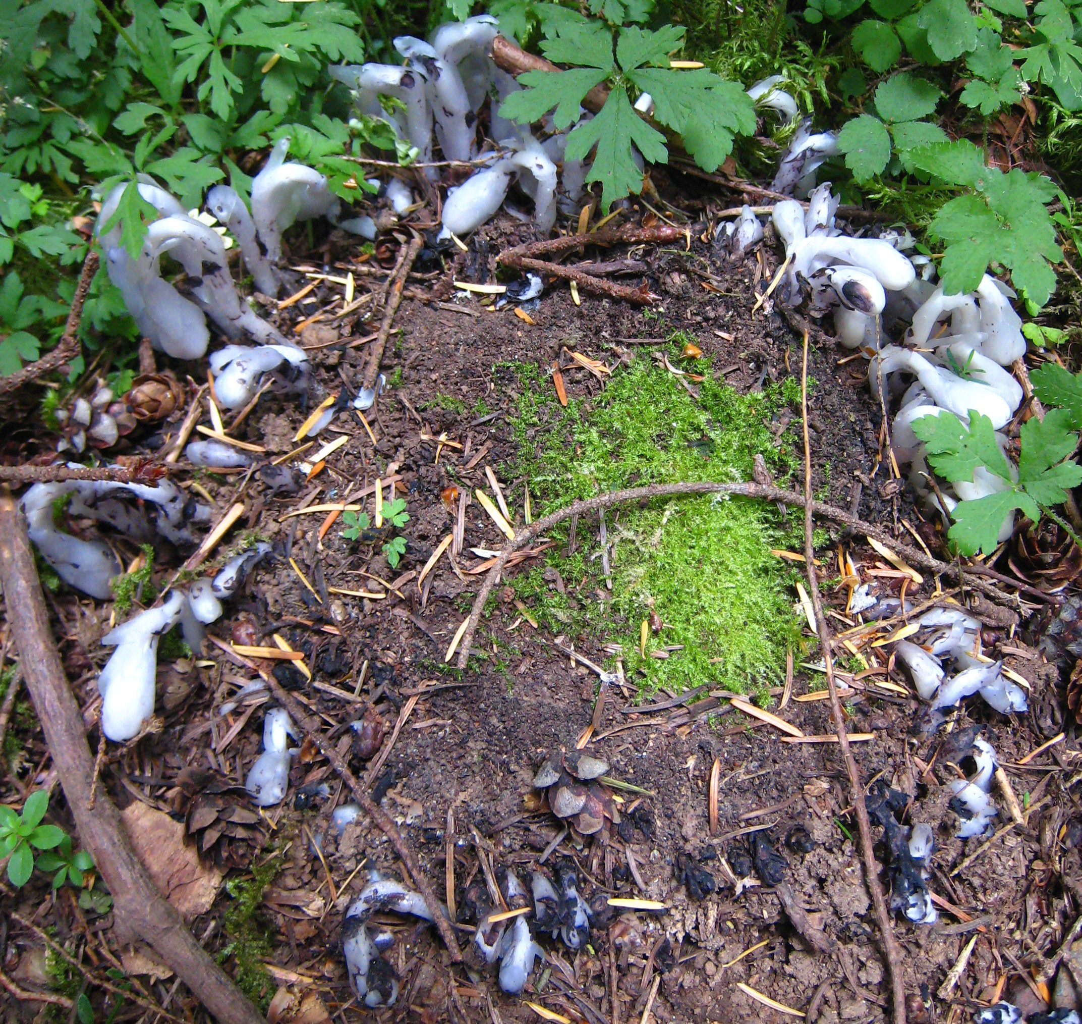 A circle of the white chlorophyll-lacking parasitic plant, Indian Pipe Monotropa uniflora. Photographed at Orcas Island, WA, USA.